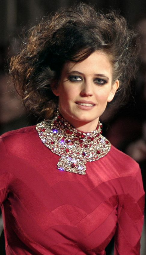 Eva Green at the BAFTAs at the Royal Opera House in London